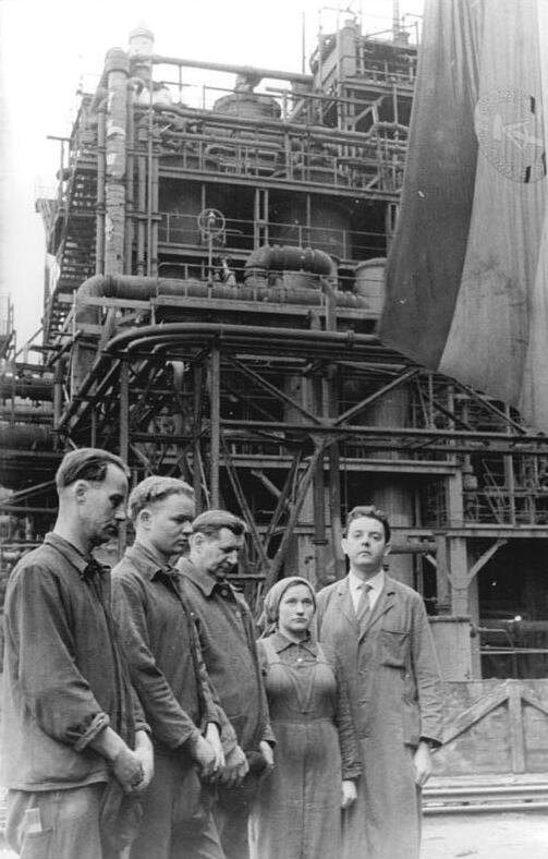 Workers of the Leuna-Werke in a Moment Of Silence for the 123 dead miners of the Zwickau Karl-Marx-Mine disaster.